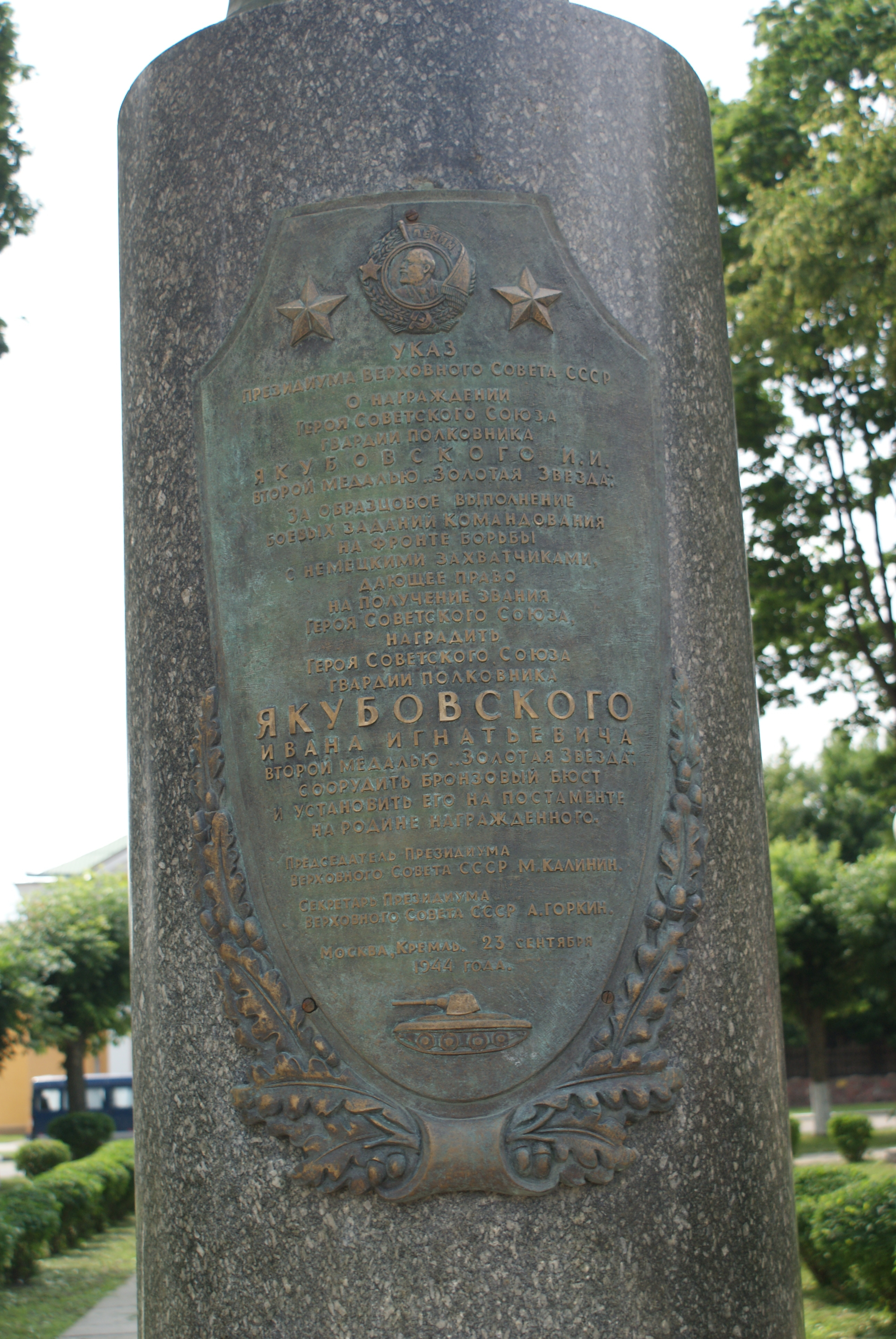 Ivan Yakubovsky's monument in Horki